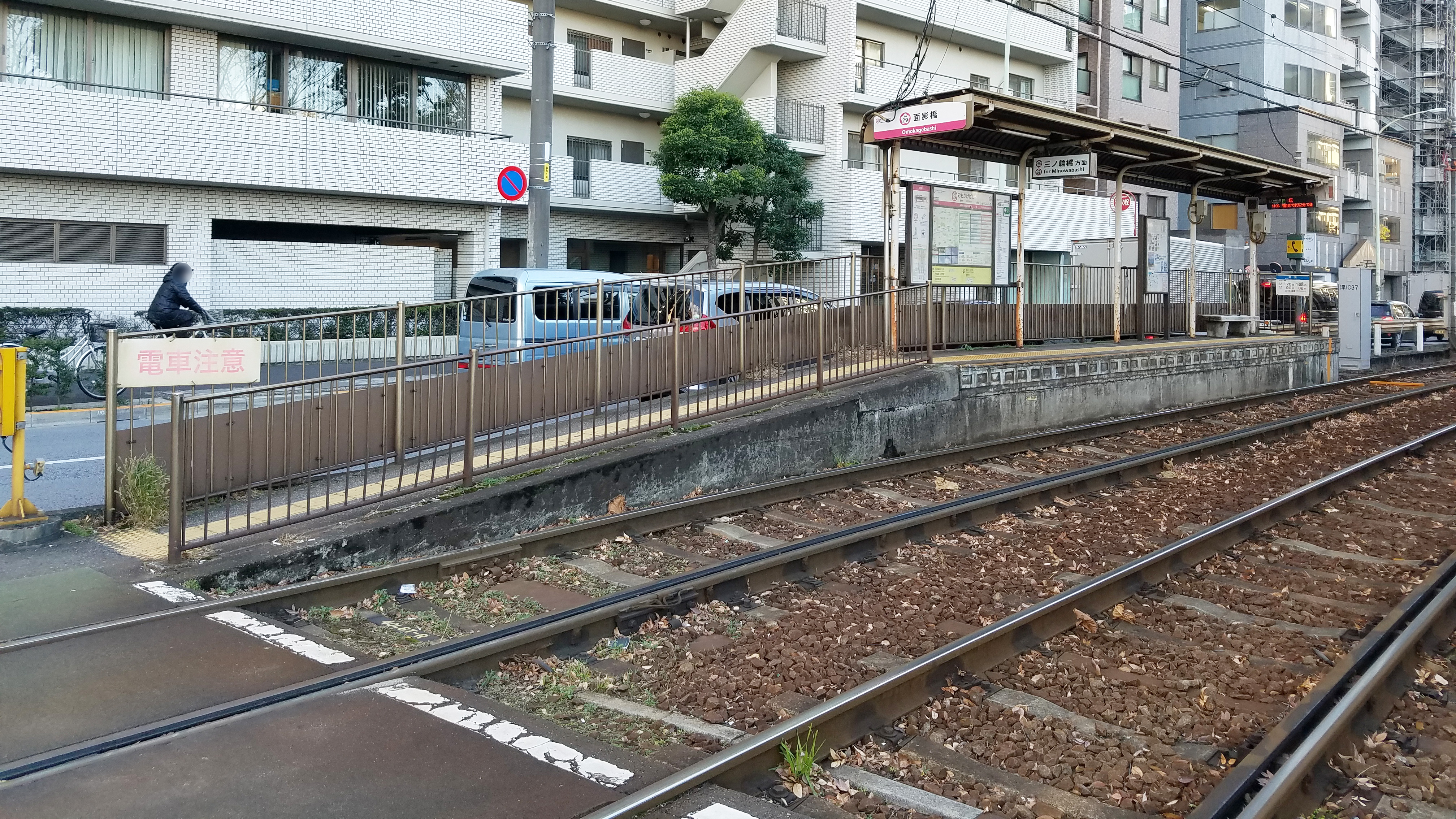 The Minowabashi-bound platform at Omokagebashi Station on the Toden Arakawa Line(Tokyo Sakura Tram) in Shinjuku city, Tokyo, Japan